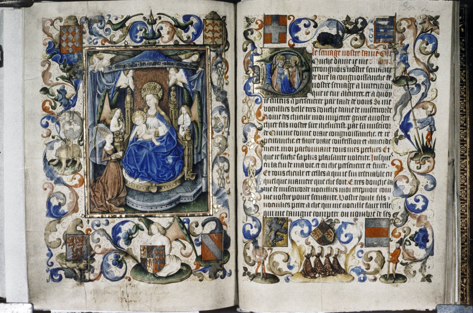 Virgin and Child enthroned. Coronation of the Virgin. From a manuscript of the Book of Hours